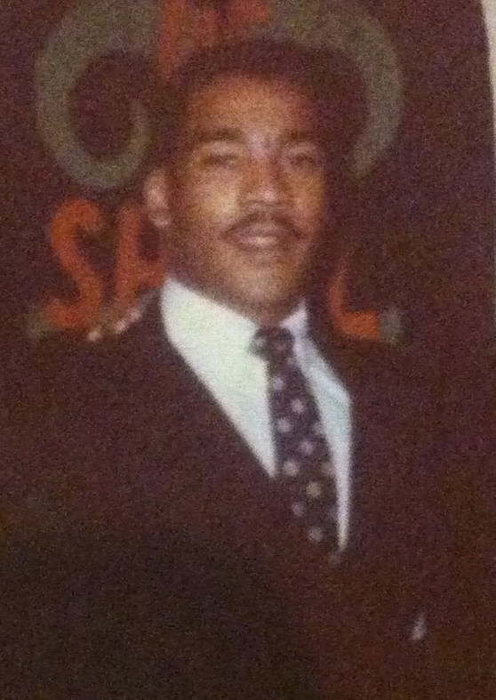 Photograph: A young Fr. Pfleger with Dexter Scott King, and Pfleger's son Lamar.